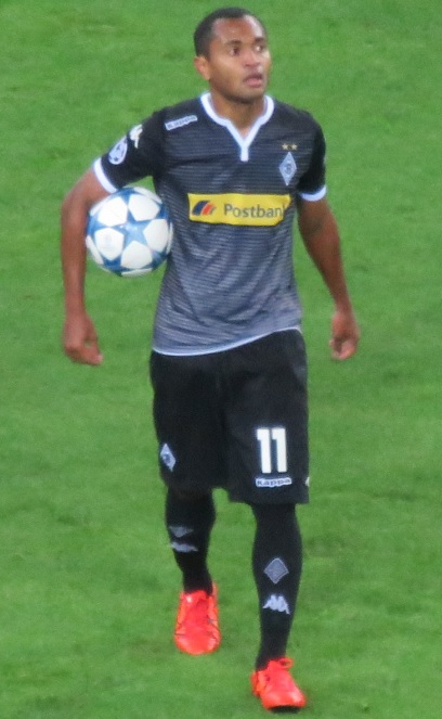 Raffael Borussia vs Man City 30 Sept 2015